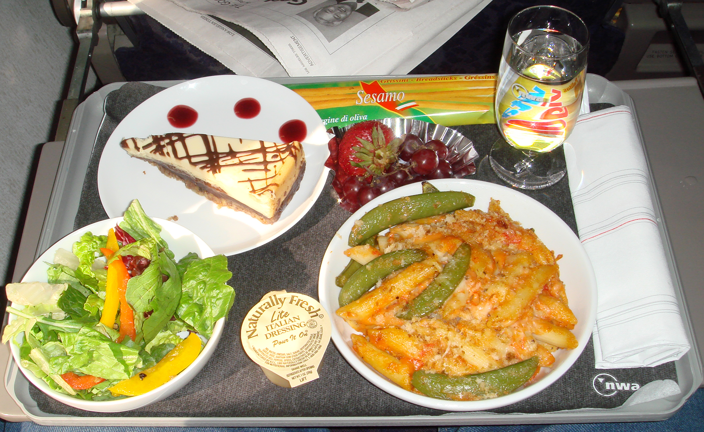 A first class airline meal (dinner), served aboard a Northwest Airlines flight from Los Angeles to Minneapolis.